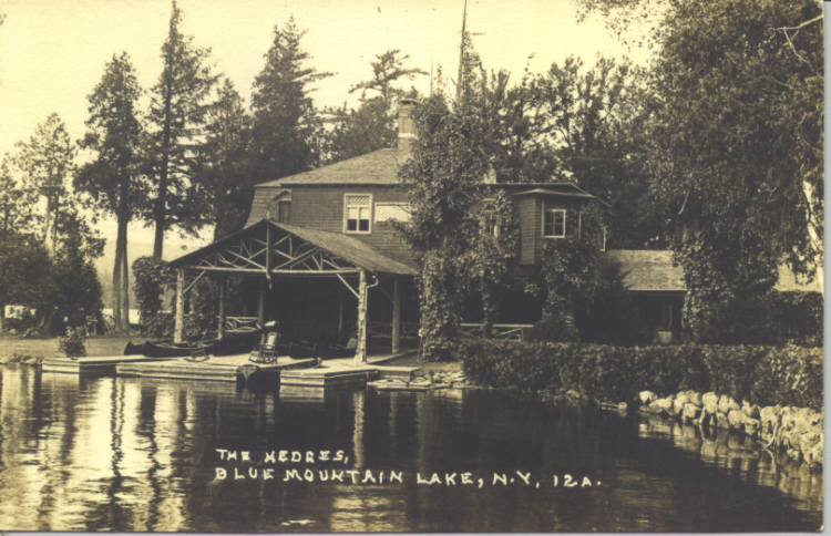 H. M. Beach photo of the Hedges, Blue Mountain Lake, NY. Built in 1880 by Hiram B. Duryea, a brigadier general of the US Reserves, in the style of what is now called the Adirondack Great Camp - a main lodge with 20 some out-buildings. The Hedges was operated as a private home, then a well-known lodge for tourists in the 1950s and 60s. Since 2000 it has been restored and preserved for future generations, again open for overnight visitors.